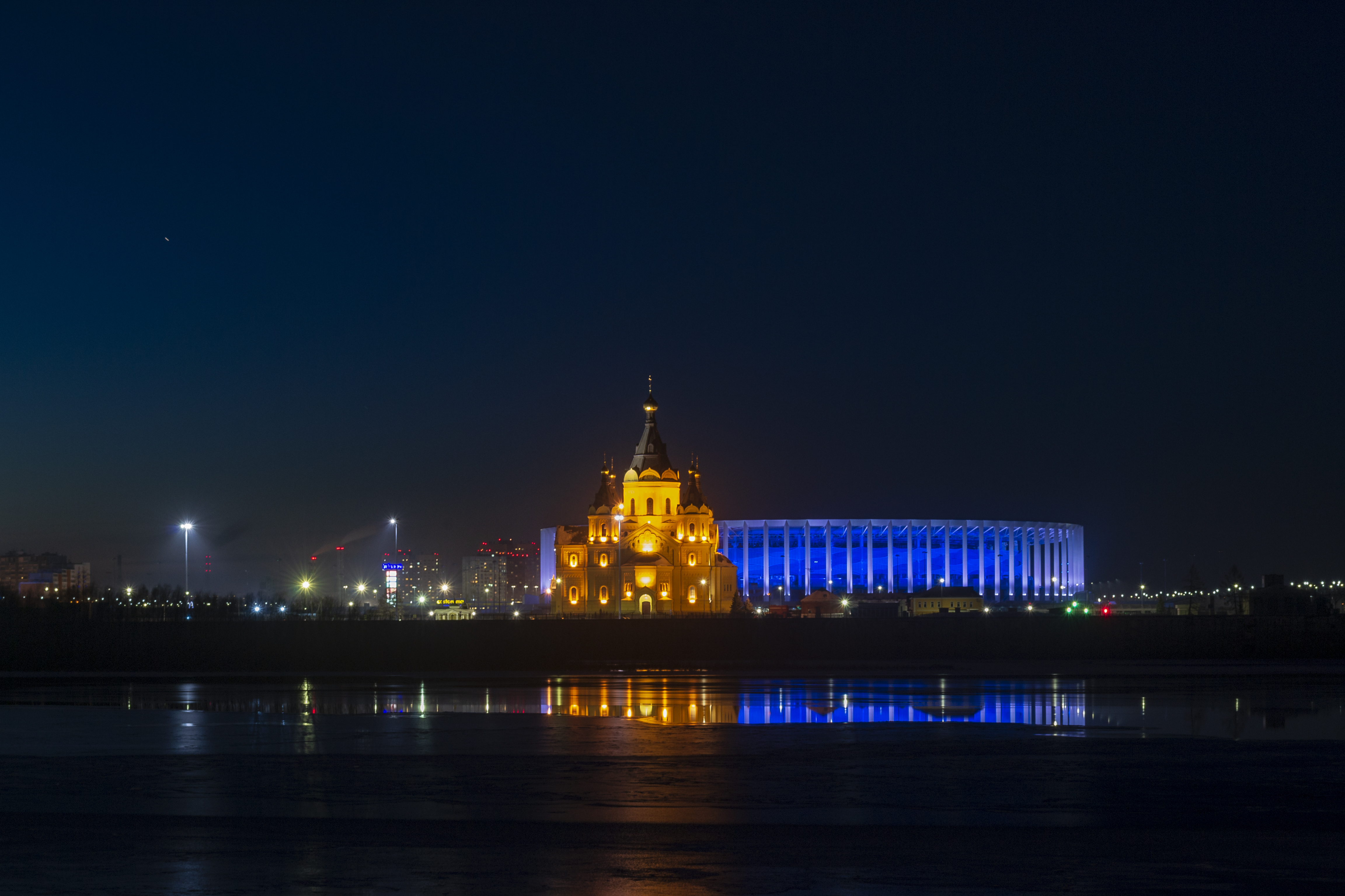 Winter view of the Spit of Nizhny Novgorod and the FIFA-stadium from Lower-Volga Embankment in Nizhny Novgorod, Russia